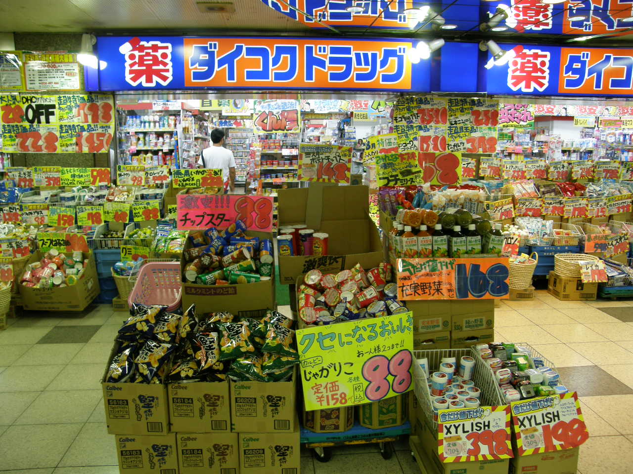 Drugstore Daikoku Drug